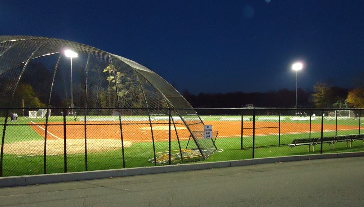 Athletic field at Summit High School in Summit, New Jersey, lit up for evening activity.